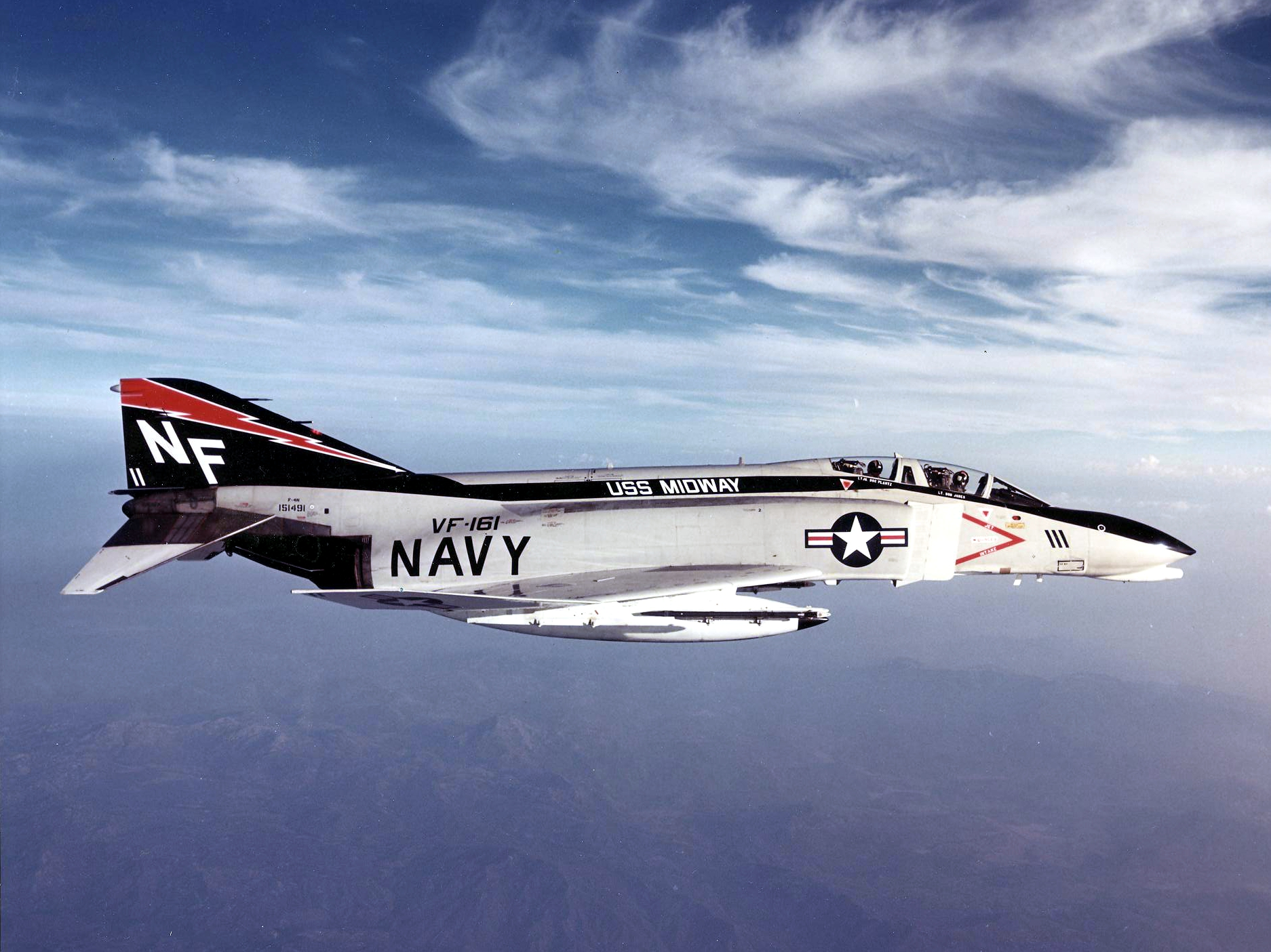 A U.S. Navy McDonnell F-4N Phantom II (BuNo 151491) of Fighter Squadron VF-161 "Chargers" in flight. 151491 was assigned to VF-161, Carrier Air Wing 5 (CVW-5), aboard the aircraft carrier USS Midway (CV-41) from 1973 to 1977. It was retired to the MASDC as 8F0077 on 3 November 1977.